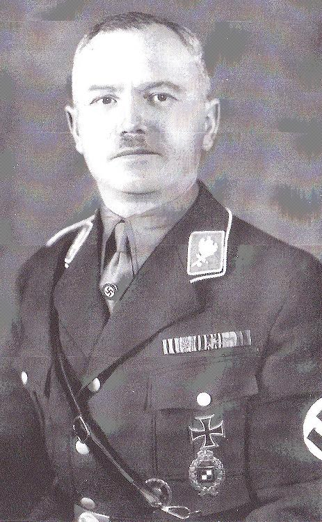 Fritz von Kraußer (1888-1934), Obergruppenfuehrer (General) of the SA. Executed during the Roehm Purge of 1934.